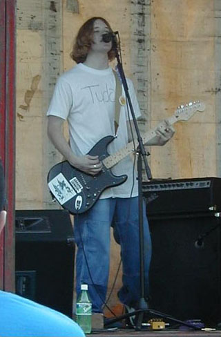 Lucas Helder, live in concert with his band Apathy. I had my father take this photo of Luke at a live show. He gave me full license to use it as I wish.